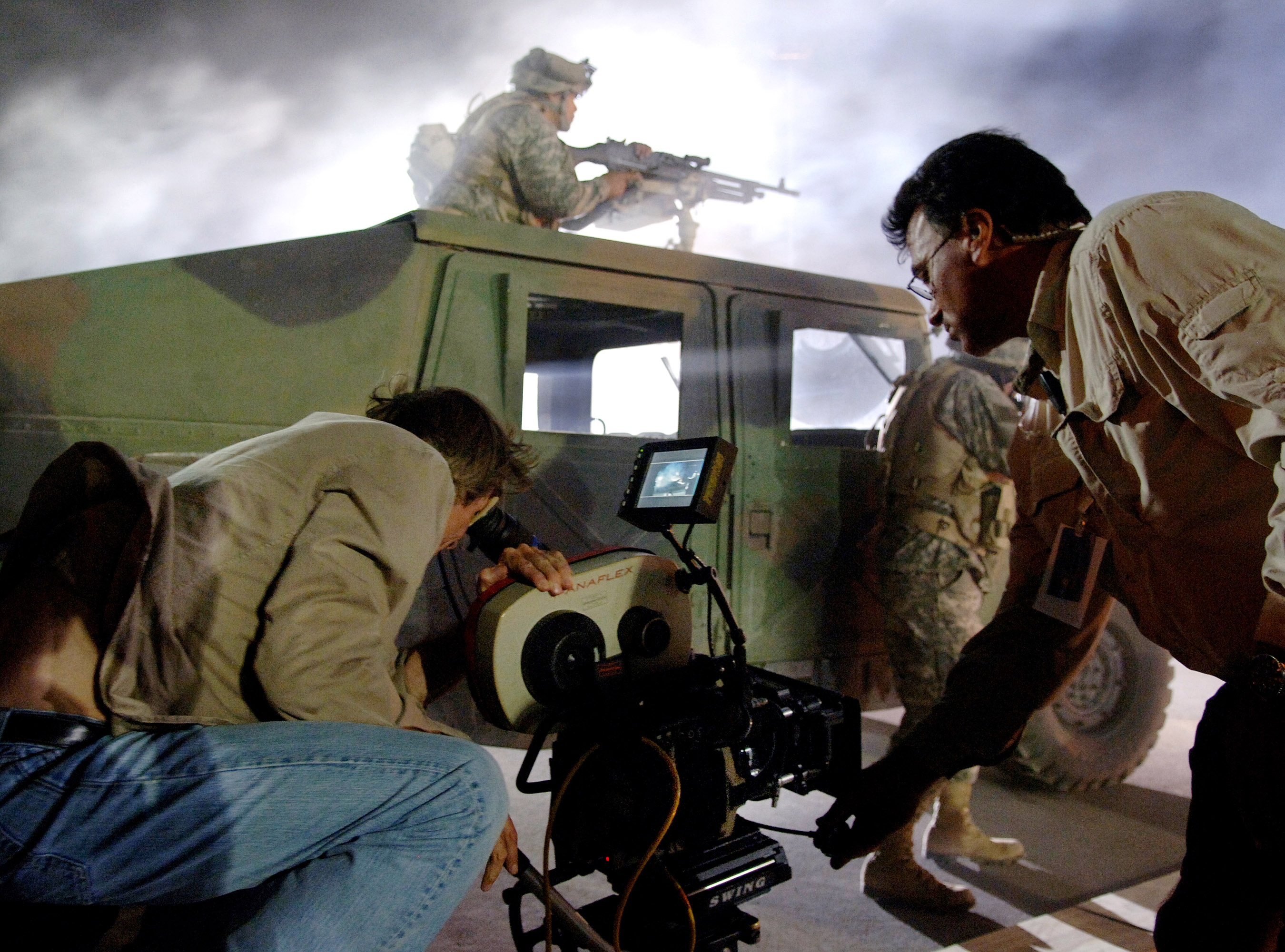 Movie director Michael Bay films an Airman on the set of the movie "Transformers" May 31 at Holloman Air Force Base, N.M. Several Airmen had the opportunity to fill roles as extras during filming. The movie, scheduled for release July 4, will feature 300 Airmen and Soldiers alongside military aircraft, including CV-22 Osprey, F-117 Nighthawk and F-22 Raptor. (U.S. Air Force photo/Tech. Sgt. Larry A. Simmons)